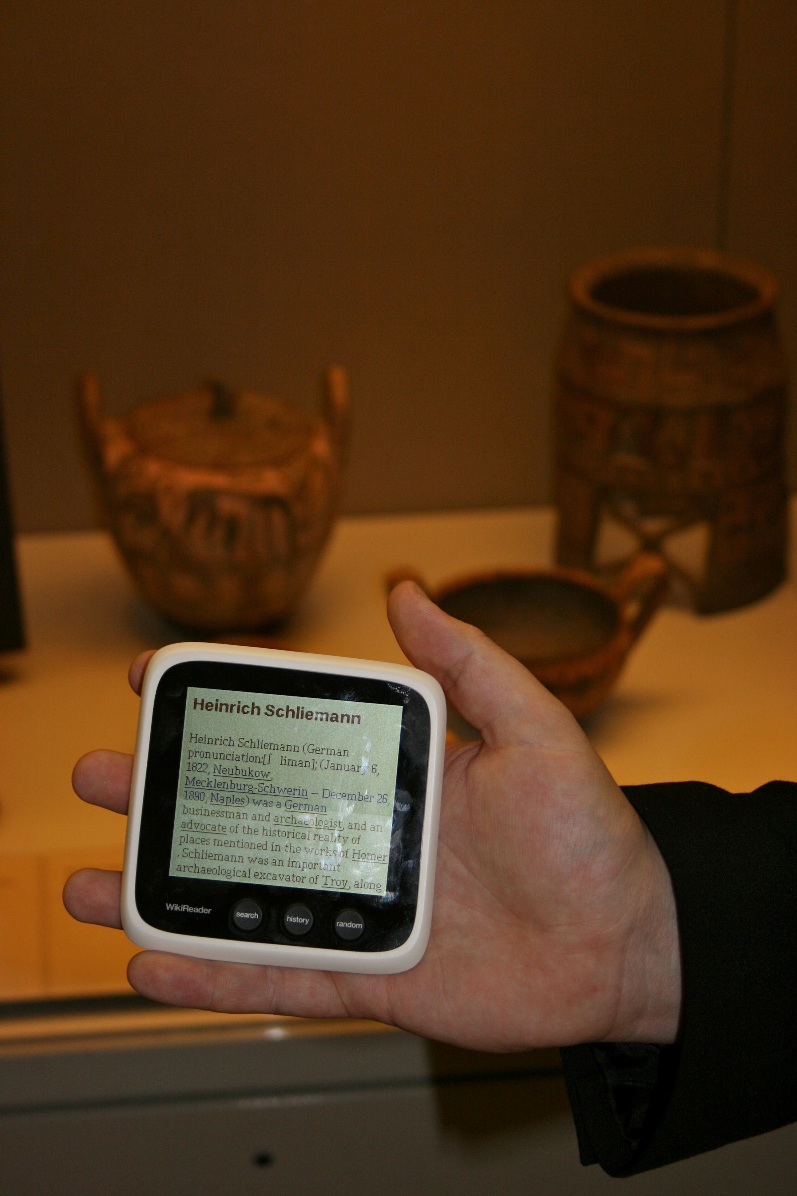 Backstage Pass at the British Museum.